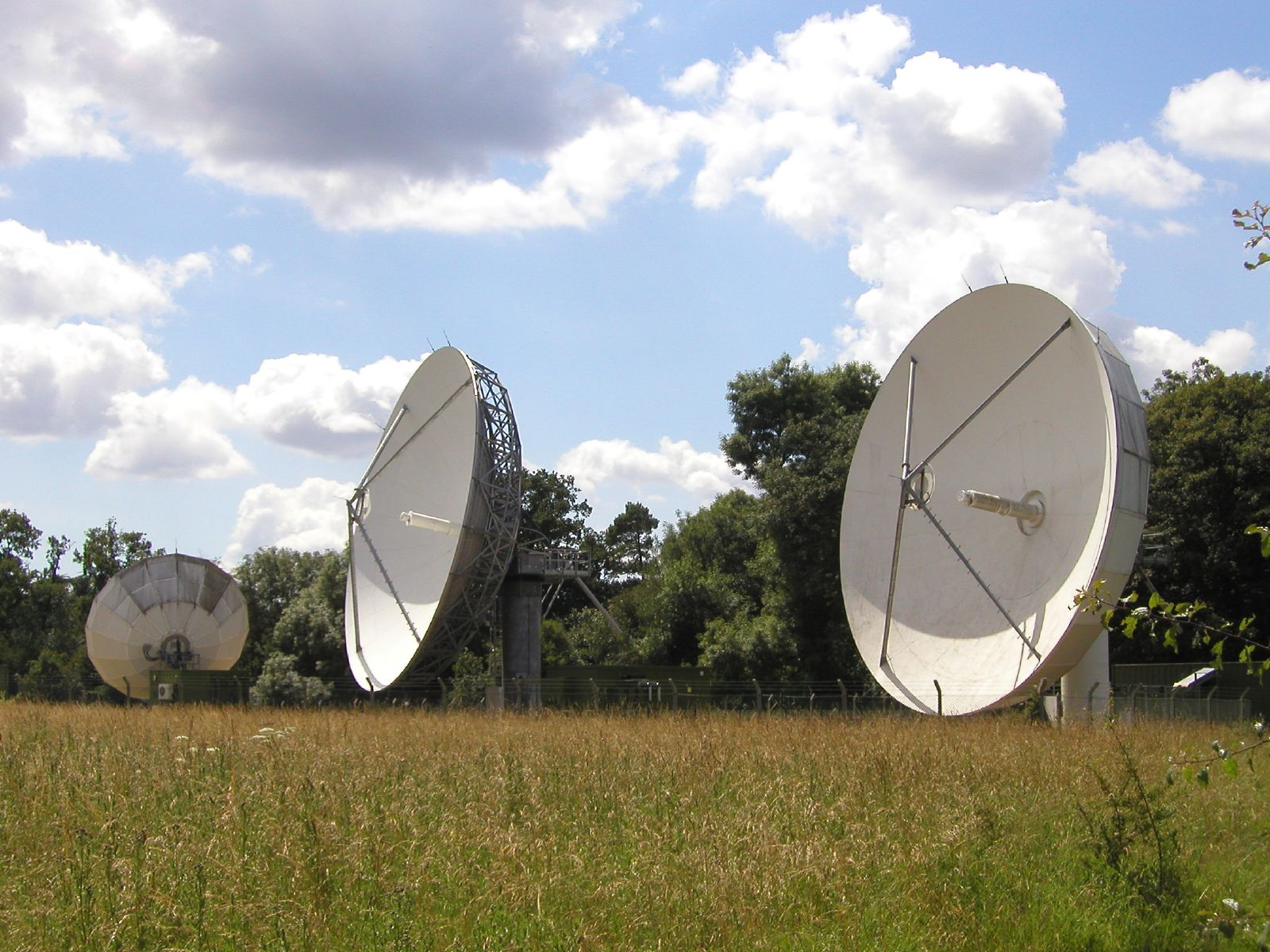 Uplink satellite dishes at Chalfont Grove, Chalfont St Peter, Bucks. Chalfont Grove uplinks various Sky channels, BFBS and more.